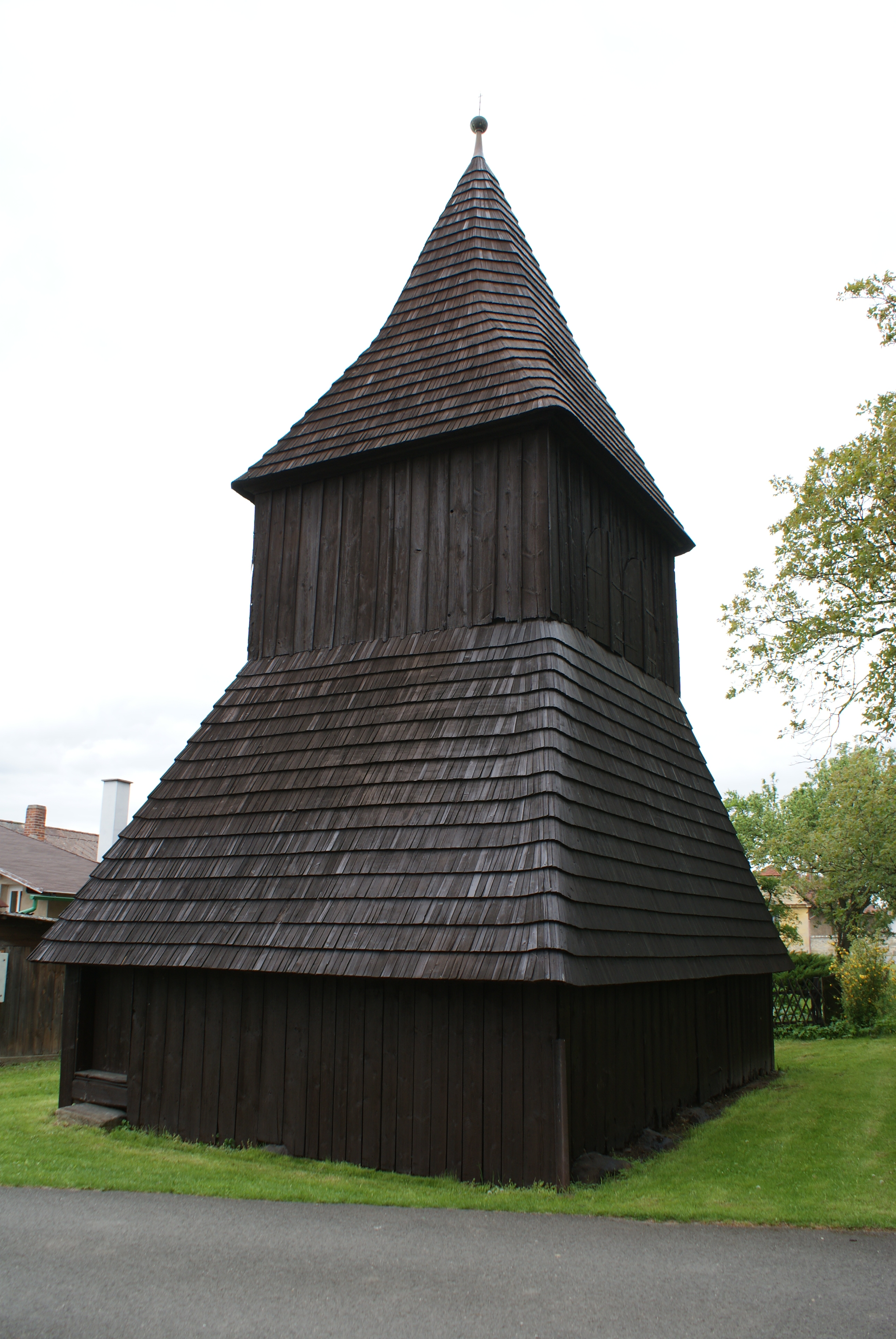 Sudoměř, Mladá Boleslav district, Czech Republic, a wooden belfry on the village common.